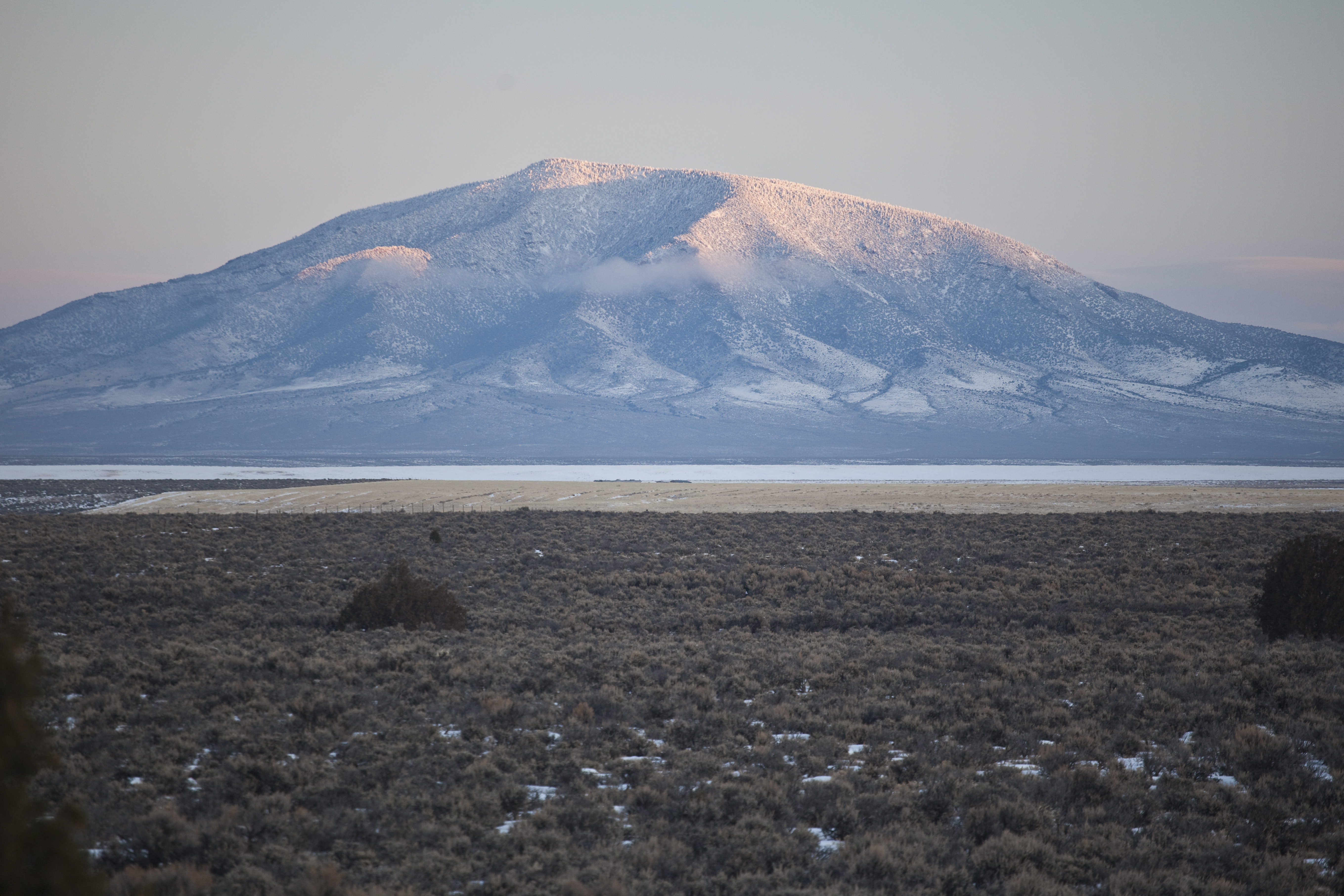 The Río Grande del Norte National Monument was established on March 25, 2013 by Presidential Proclamation. The monument includes approximately 242,500 acres of public land managed by the Bureau of Land Management. The landscape is comprised of rugged, wide open plains at an average elevation of 7,000 feet, dotted by volcanic cones, and cut by steep canyons with rivers tucked away in their depths. The Río Grande carves an 800 foot deep gorge through layers of volcanic basalt flows and ash. Among the volcanic cones in the Monument, Ute Mountain is the highest, reaching to 10,093 feet. The unique setting of the Monument also provides a wealth of recreational opportunities. Whitewater rafting, hunting, fishing, hiking, and mountain biking are some of the more outstanding activities that can be enjoyed in the Monument. The Wild Rivers Recreation Area at the confluence of the Río Grande and Red River includes campgrounds, scenic viewpoints, and hiking trails. La Junta Point, at Wild Rivers, provides a dramatic vista of the confluence of the two rivers, and is wheelchair accessible. The Orilla Verde Recreation Area includes campgrounds near the river’s edge, as well as boat launches. The Taos Valley overlook provides stunning views and trails for hiking and mountain biking. A major part of the Monument’s acreage lies west of the Río Grande. Here, seclusion is easy to find, with access only on rough dirt tracks or gravel roads. This is where you are most likely to see the vast herds of elk that bring hunters to the region. The Monument includes the Río Grande Wild and Scenic River and Red River Wild and Scenic River, designated by Congress in 1968 to provide present and future visitors the opportunity to experience the beauty of rivers in a natural free-flowing state. Learn more: Photo: Bob Wick, BLM-California